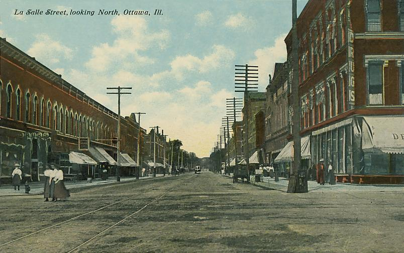 La Salle Street, looking north, Ottawa, Illinois; from a c. 1912 postcard.